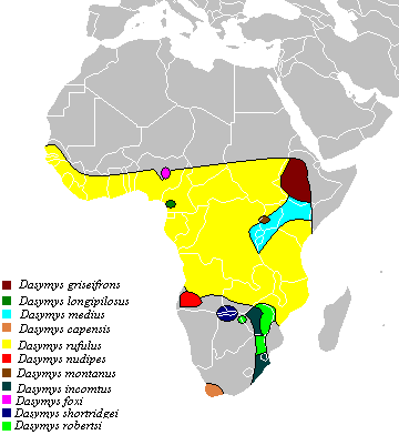 Distribution map of the rodent genus Dasymys based on Verheyen et al. (2003) (see also Image:Dasymys Mullin et al. 2004.png which uses another classification). marron: Dasymys griseifrons dark green: Dasymys longipilosus light blue: Dasymys medius light marron: Dasymys capensis yellow: Dasymys rufulus red: Dasymys nudipes marron: Dasymys montanus very dark green: Dasymys incomtus rosa: Dasymys foxi dark blue: Dasymys shortridgei green: Dasymys robertsi